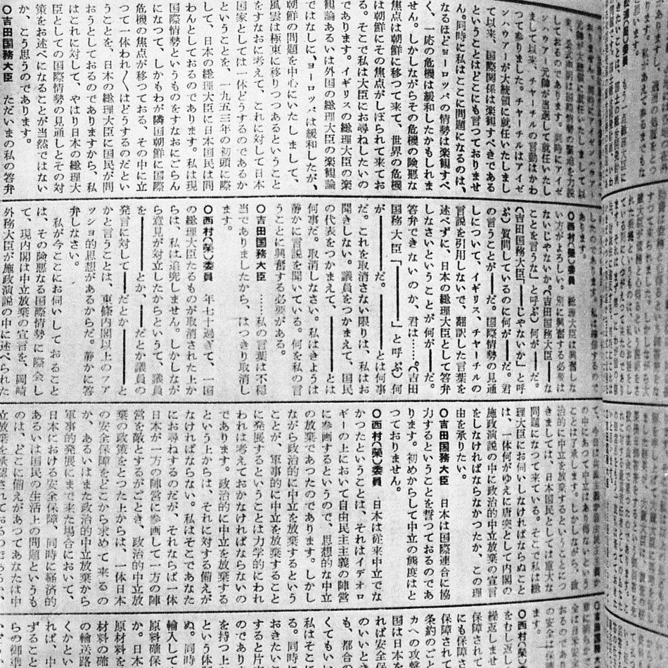 Record of the proceedings of the National Diet (28 February 1953)